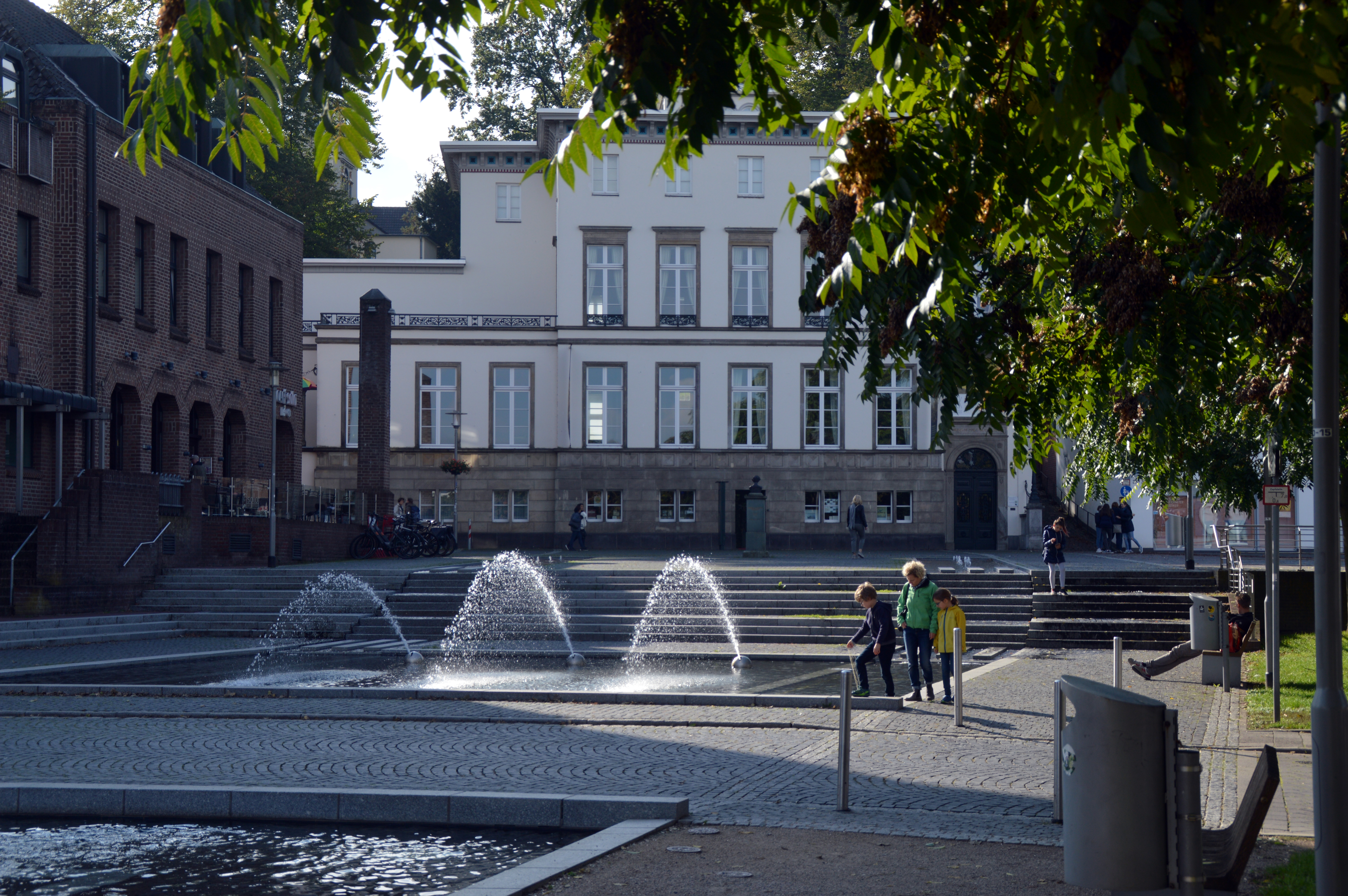 Haus Koekkoek Barend Cornelis Koekkoek Kleef Kleve Cleves